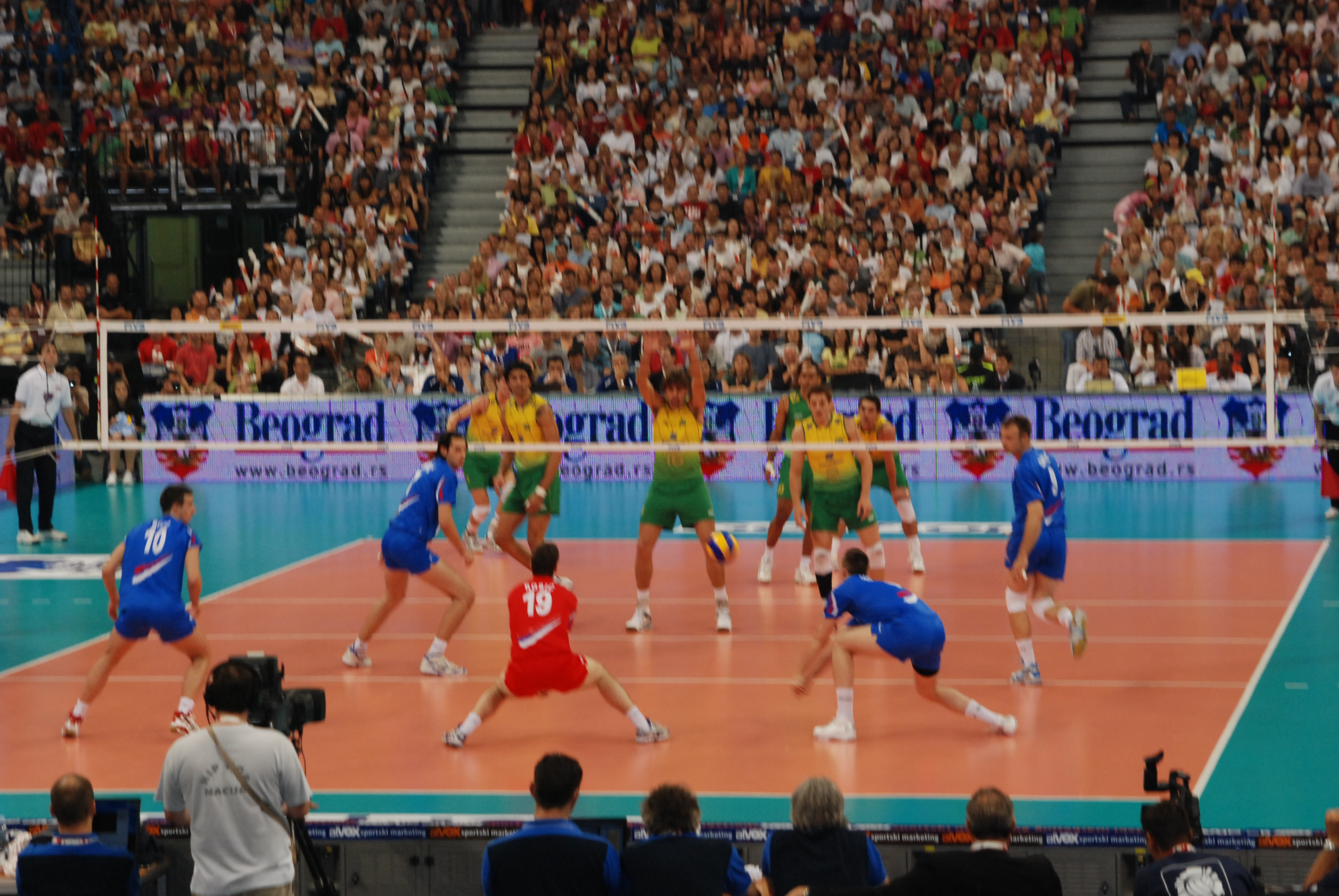 Brazil is the 2009 World League Champion. In a packed Beogradska Arena (22,680 spectators is the record for a sporting event at the venue) Brazil beat Serbia in a thrilling 3-2 match (22-25, 25-23, 25-22, 23-25, 15-12) on Sunday. It is Brazil?s eighth World League title, while Serbia won their fourth silver medal, second in a row. Cuba surrendered to Russia in the bronze medal match, Daniele Bagnoli?s team winning easily 3-0 (25-13, 26-24, 25-16) to earn their 12th World League medal. Brazilian libero Sergio won the 30,000 USD prize as MVP of the final.